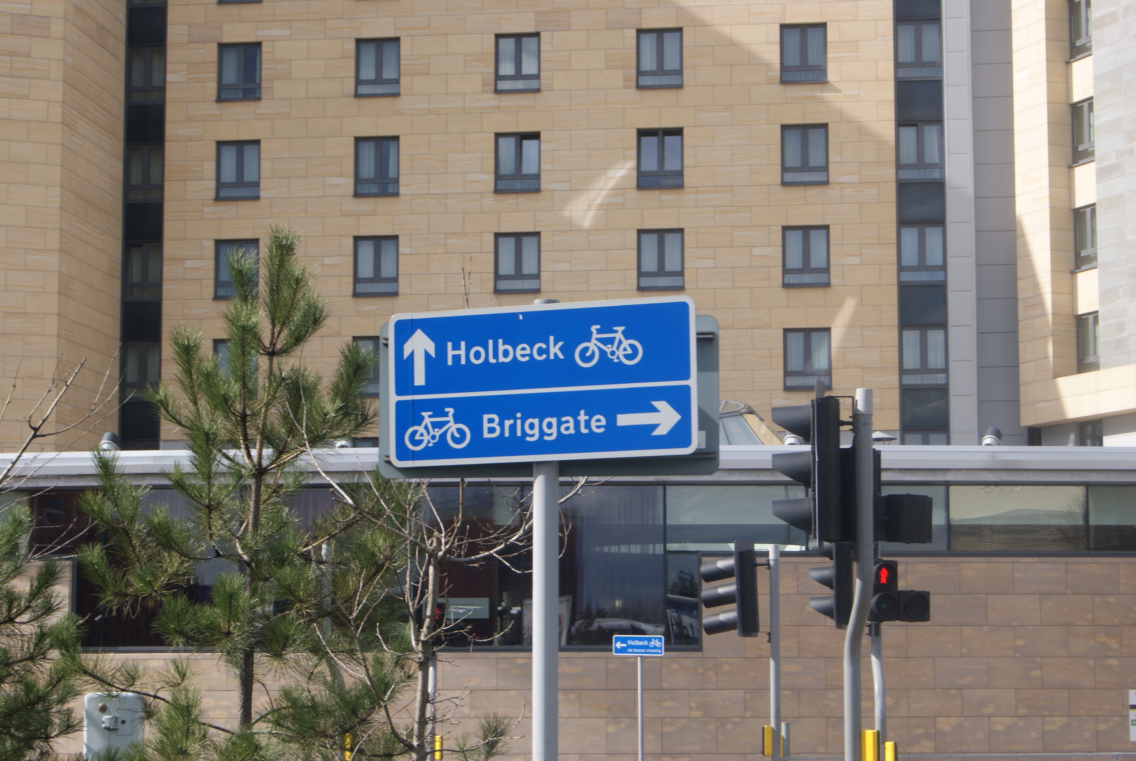 Cycling directions to Holbeck and Briggate on Meadow Road (LS11) in Leeds, West Yorkshire. People cycle very quickly through Holbeck these days, unlike the drivers who stop briefly on most street corners. Taken on the afternoon of Saturday the 3rd of April 2010.